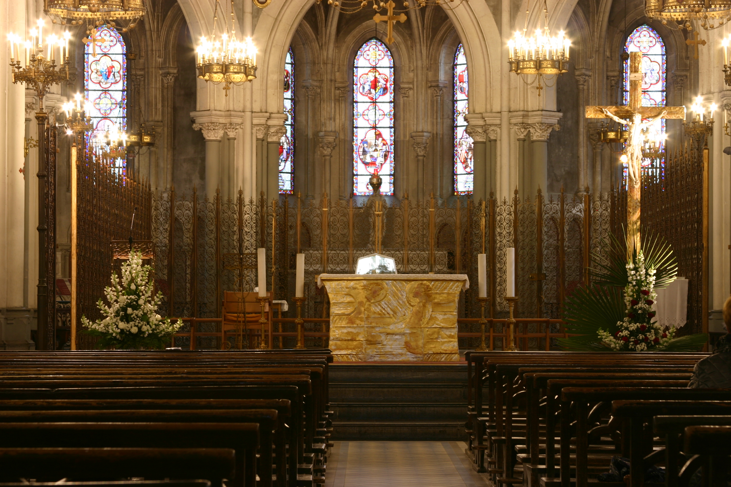 Basilica of the Immaculate Conception - Lourdes